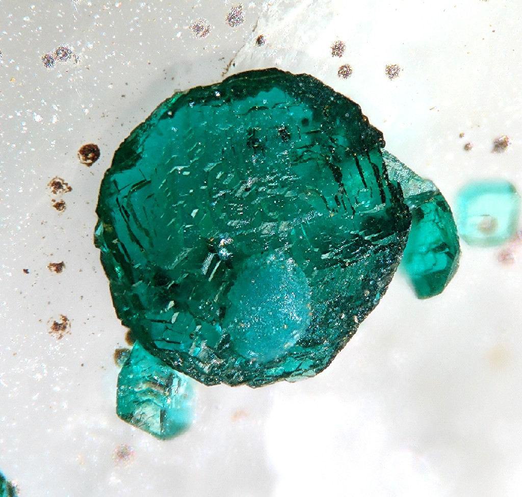 Pseudomalachite Locality: Miguel Vacas Mine, Pardais, Vila Viçosa, Évora District, Portugal (Locality at ) Picture width 1 mm. Collection and photograph Christian Rewitzer